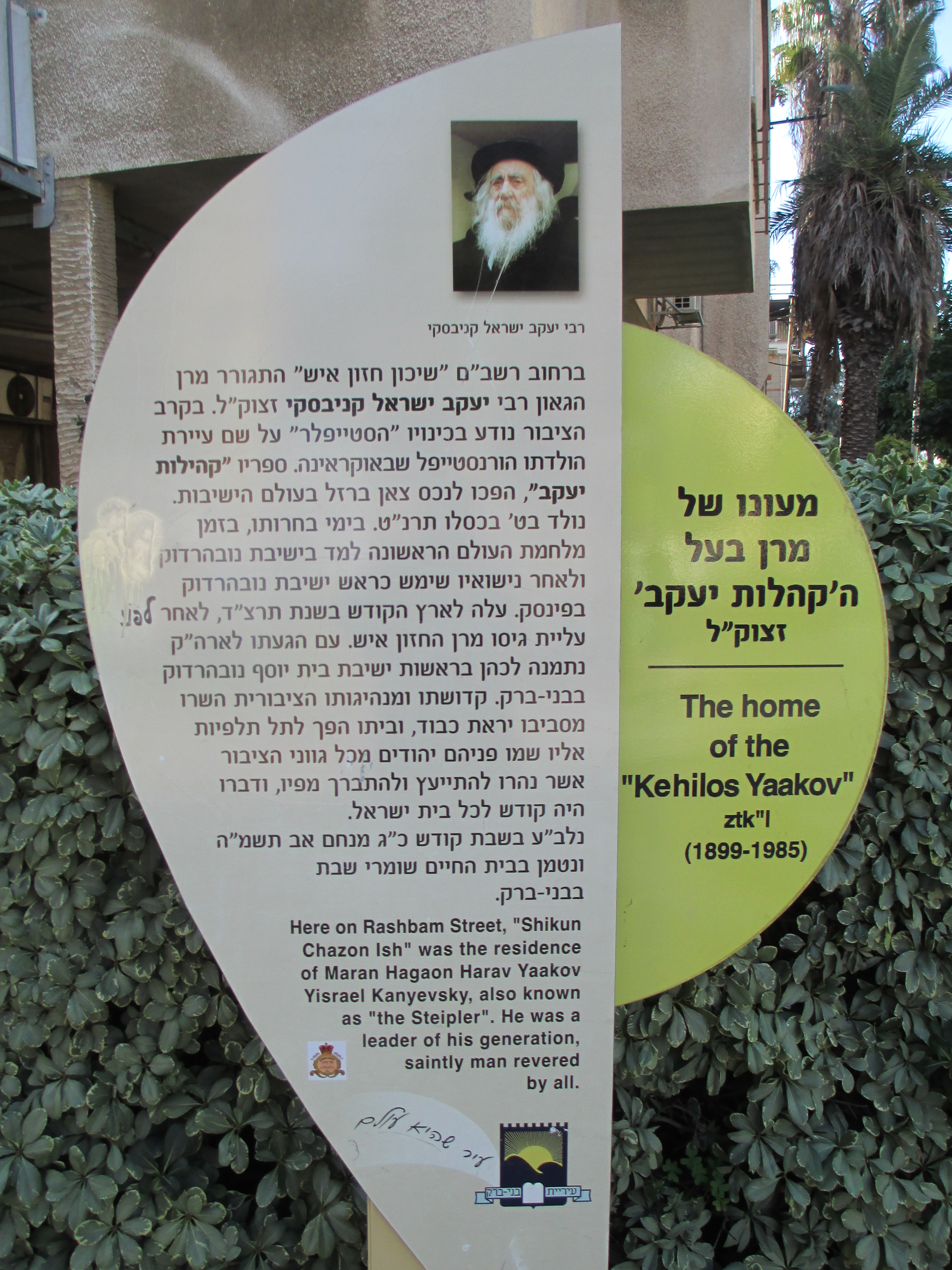 memorial plaque to rabbi kanyevsky in bnei brak לוחית זיכרון לרב יעקב קנייבסקי ברח' רשב"ם בבני ברק